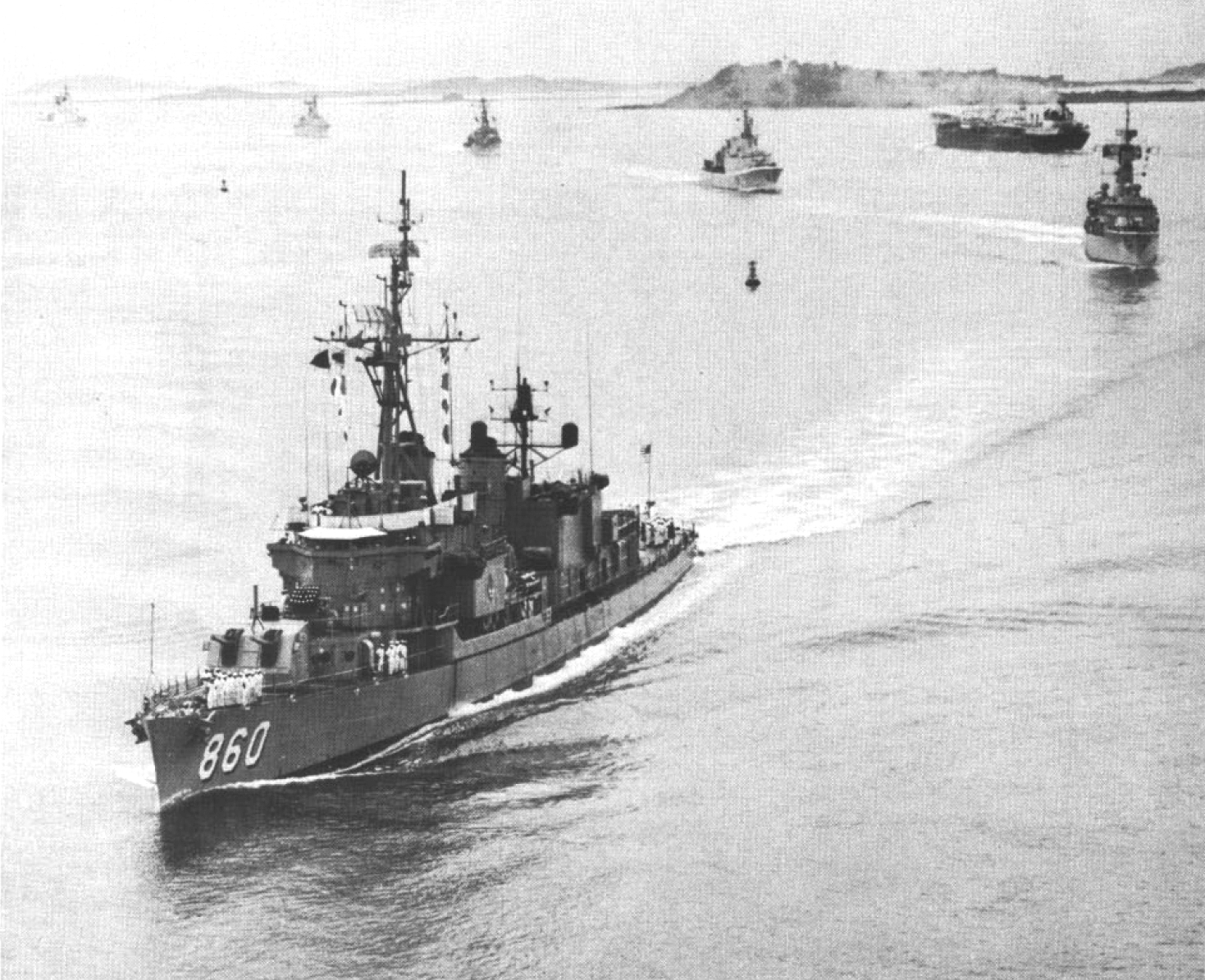 Ships of North Atlantic Treaty Orgnisation Standing Naval Force Atlantic steam into Boston harbour, Massachusetts (USA). The leading ship is the U.S. Navy destroyer USS McCaffery (DD-860). The other STANAVFORLANT ships at that time were: the British frigate HMS Dido (F104); the Portugese frigate Almirante Pereira da Silva (F472); the West German destroyer Hamburg (D181); the Dutch frigate Hr.Ms. Isaac Sweers (F814); the Canadian frigate HMCS Assiniboine (DDE 234).